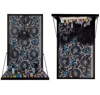 Hema Upadhyay_Killing Site